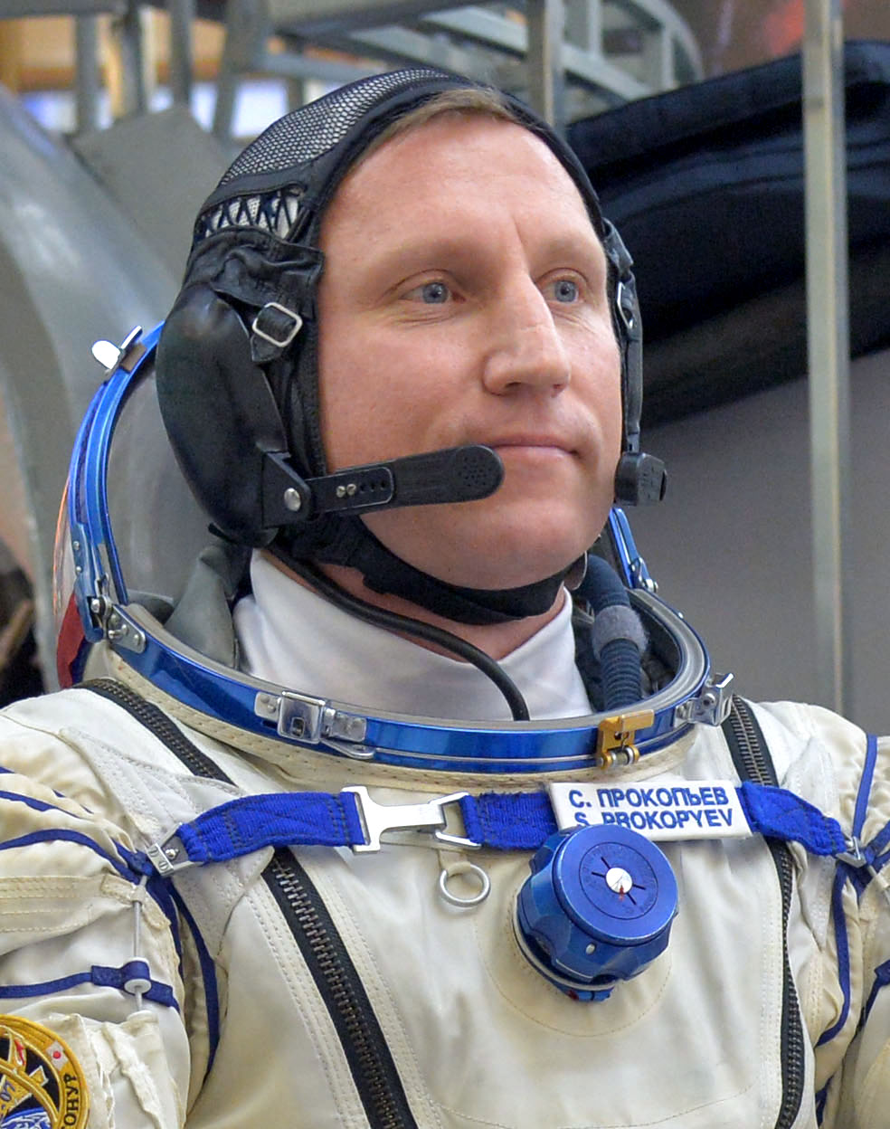 At the Gagarin Cosmonaut Training Center in Star City, Russia, Expedition 54-55 backup crewmember Sergey Prokopyev of the Russian Federal Space Agency (Roscosmos) answers reporters’ questions Nov. 28 as part of his final qualification exam activities. He is serving as backup to the prime crew member, Anton Shkaplerov of Roscosmos, who will launch Dec. 17 on his Soyuz MS-07 spacecraft for a five-month mission on the International Space Station.